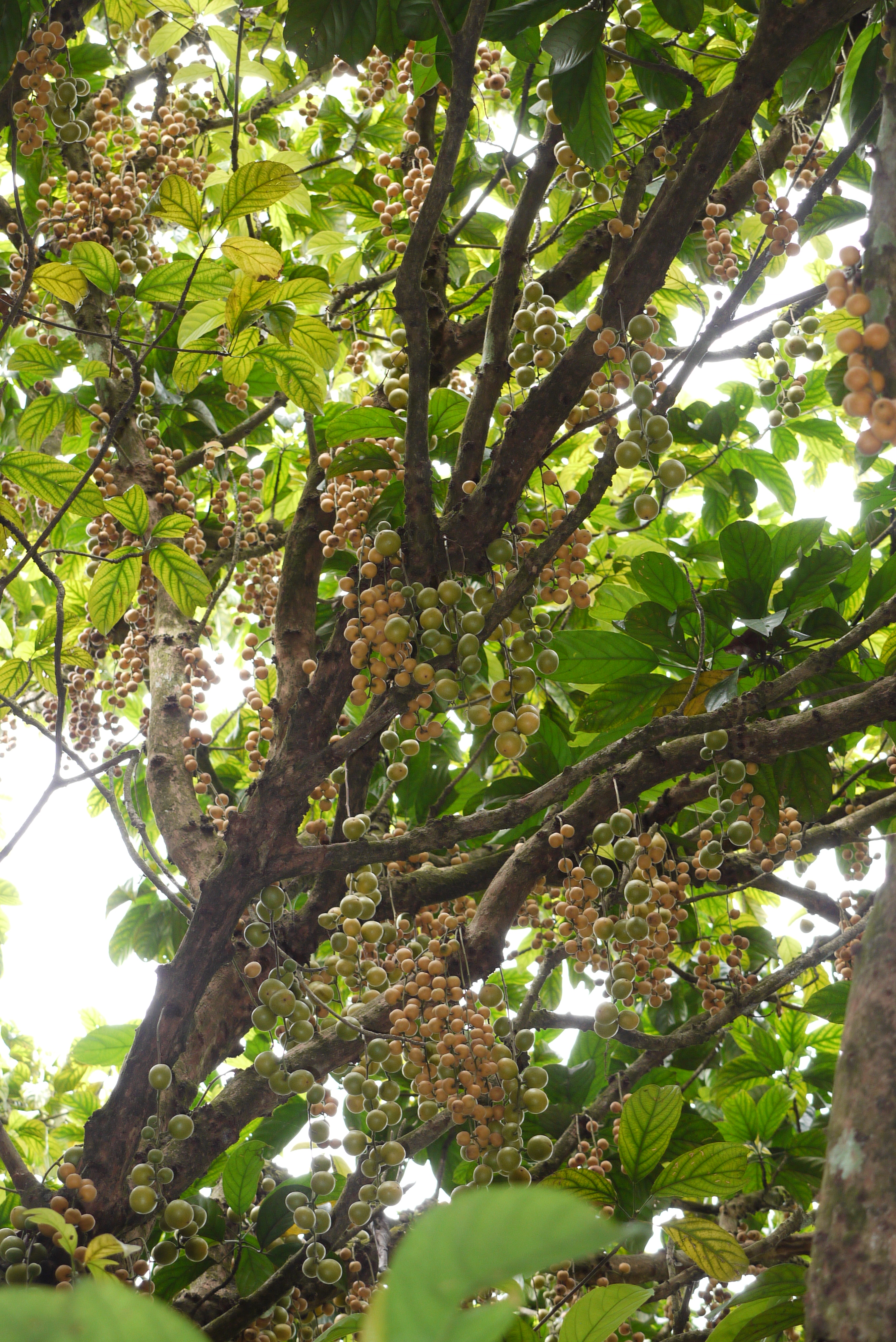 A productive rambai tree (Baccaurea motleyana) which bears fruit on branches all over the tree. Locality: MARDI rare fruit genebank in Serdang, Selangor, Malaysia.